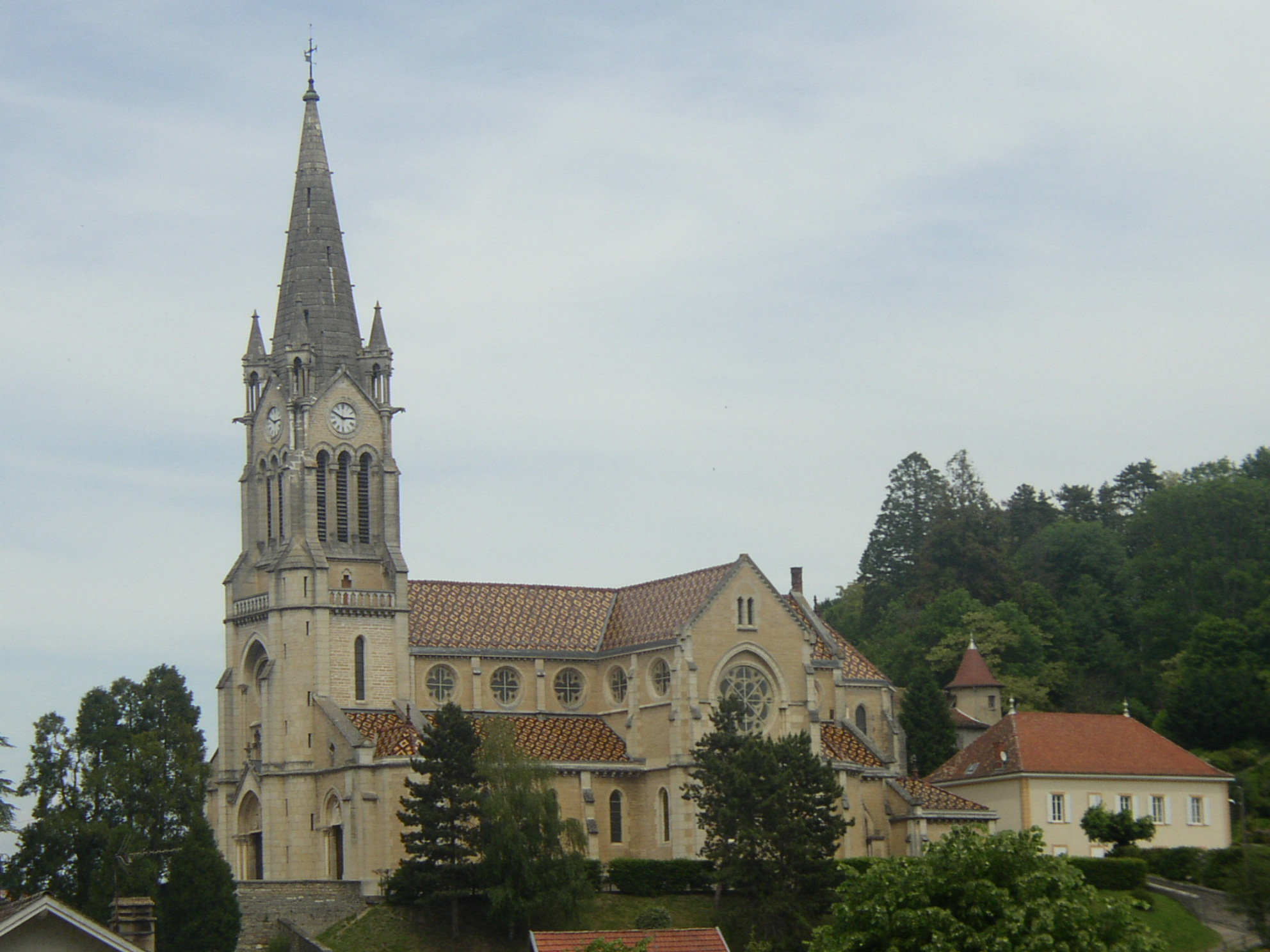 The church Notre-Dame de l'Assomption, in La-Tour-du-Pin in the French department of Isère